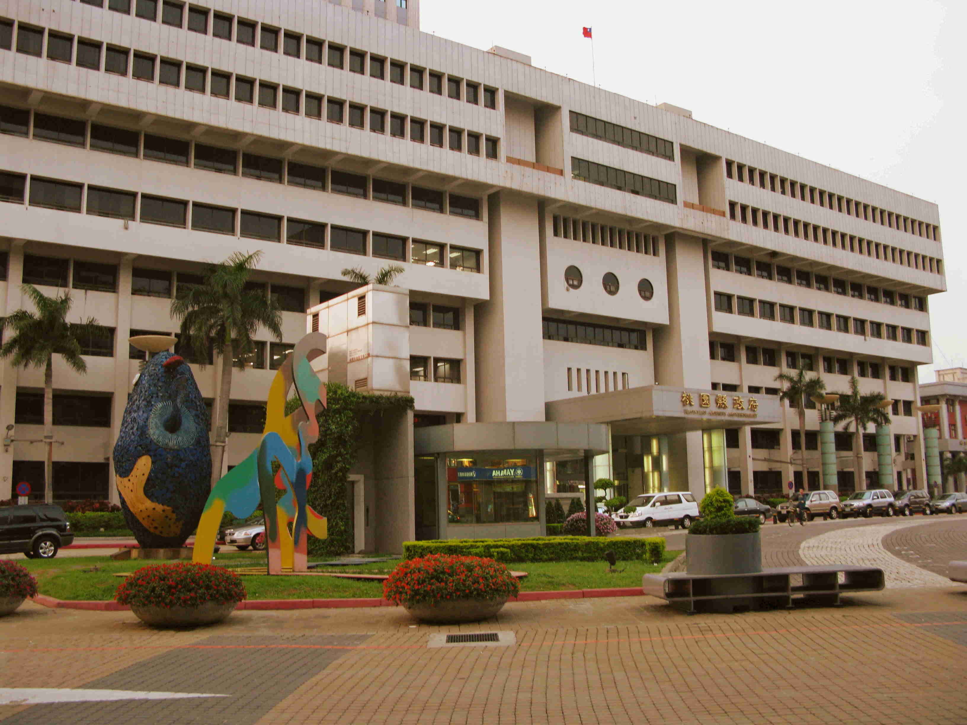 Taoyuan County Government